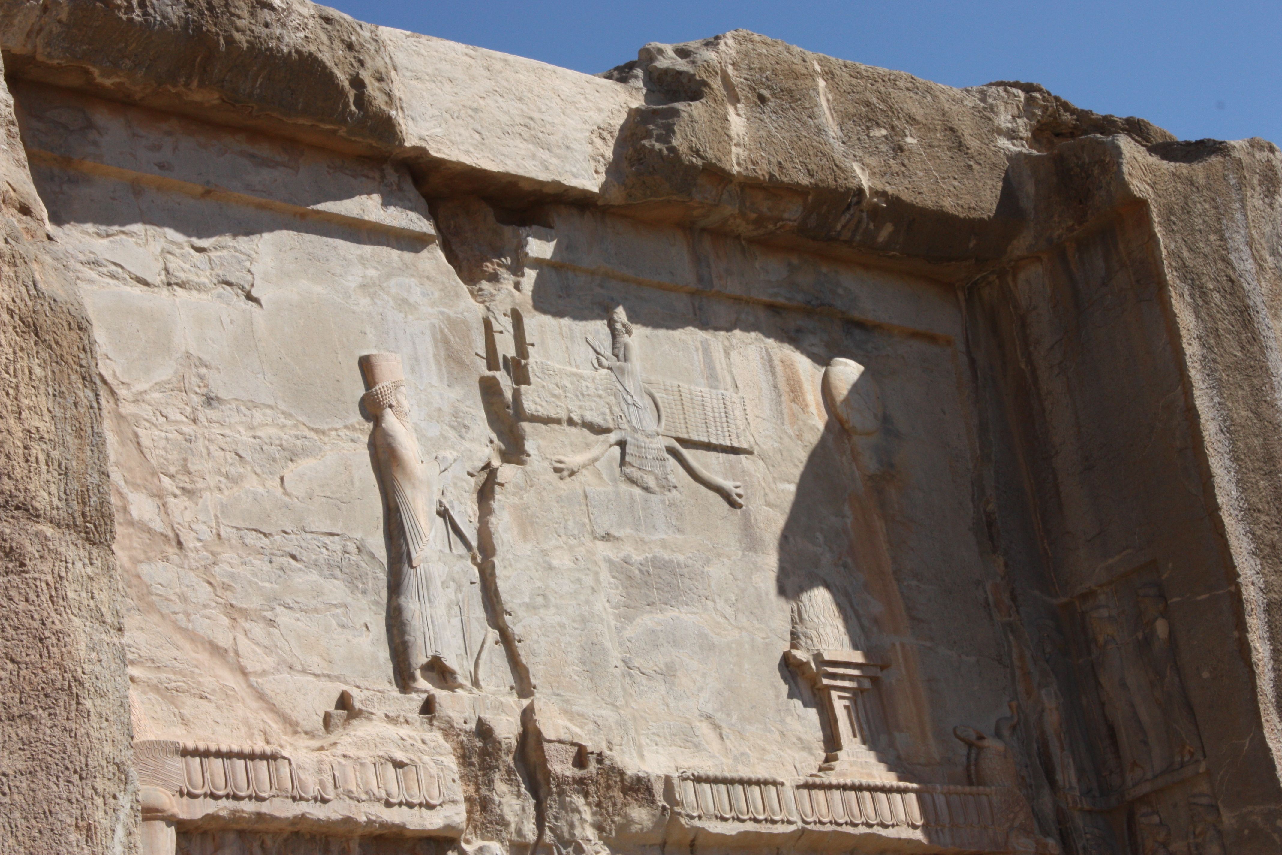 Persepolis in Shiraz